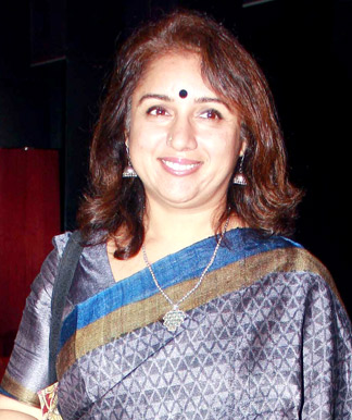 Revathi at the screening of Masaala at PVR Phoenix.